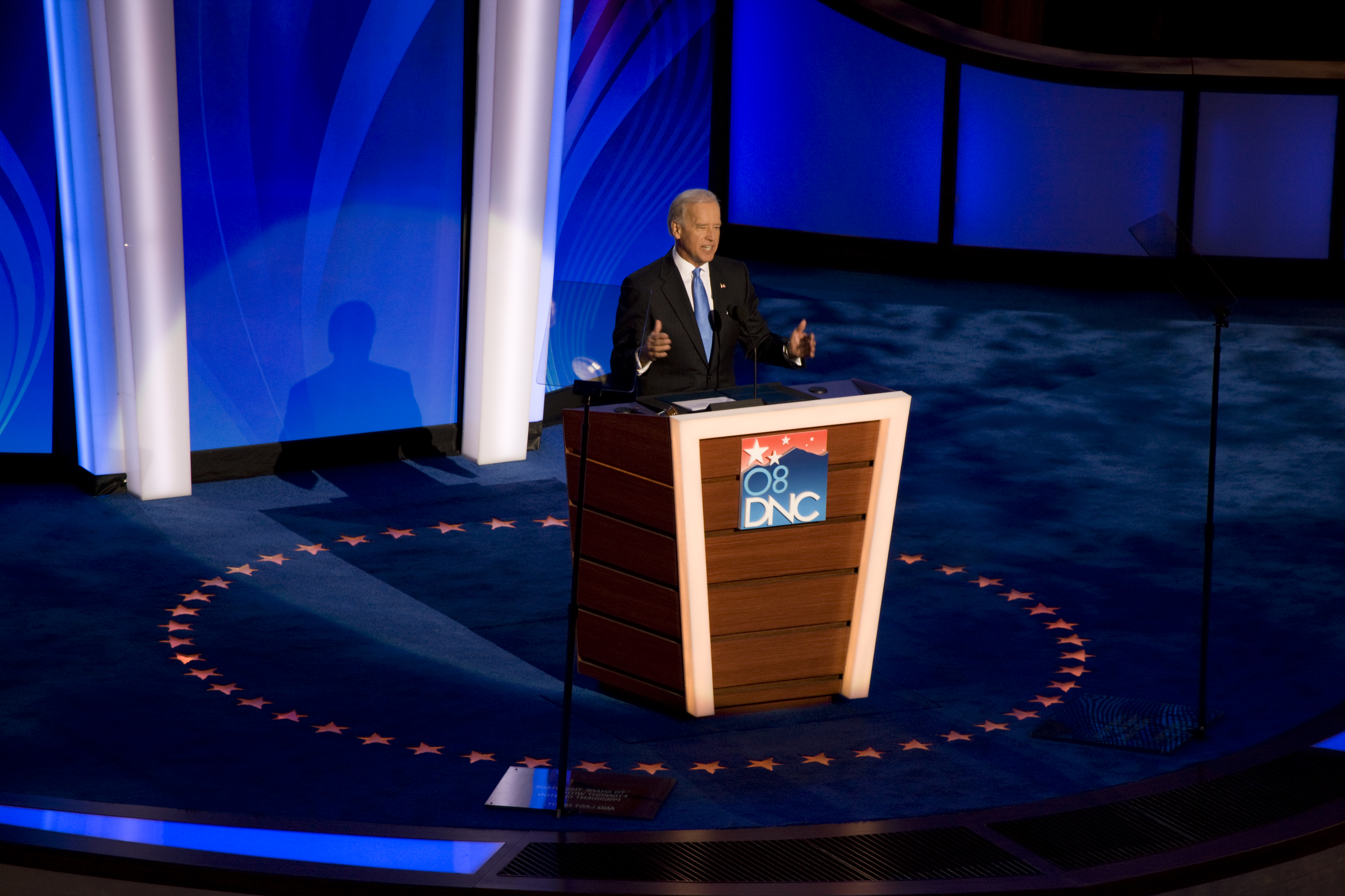 Joe Biden speaks at the 2008 DNC